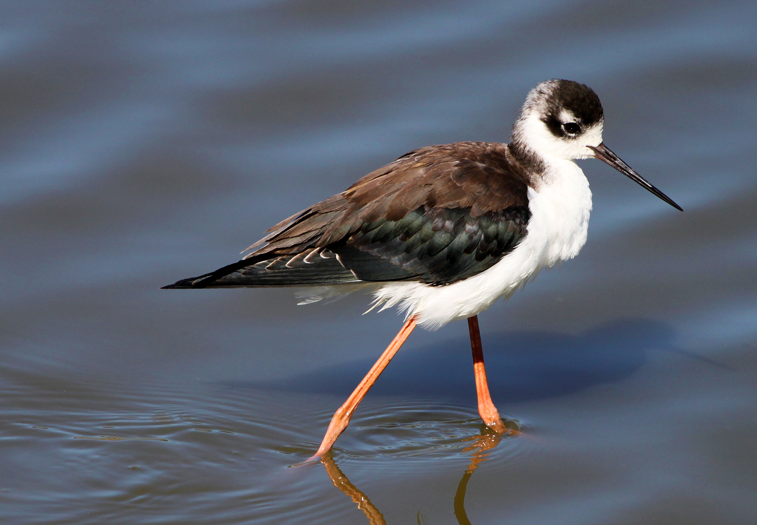 Himantopus mexicanus (black necked stilt) at San Joaquin Marsh, Irvine, CA